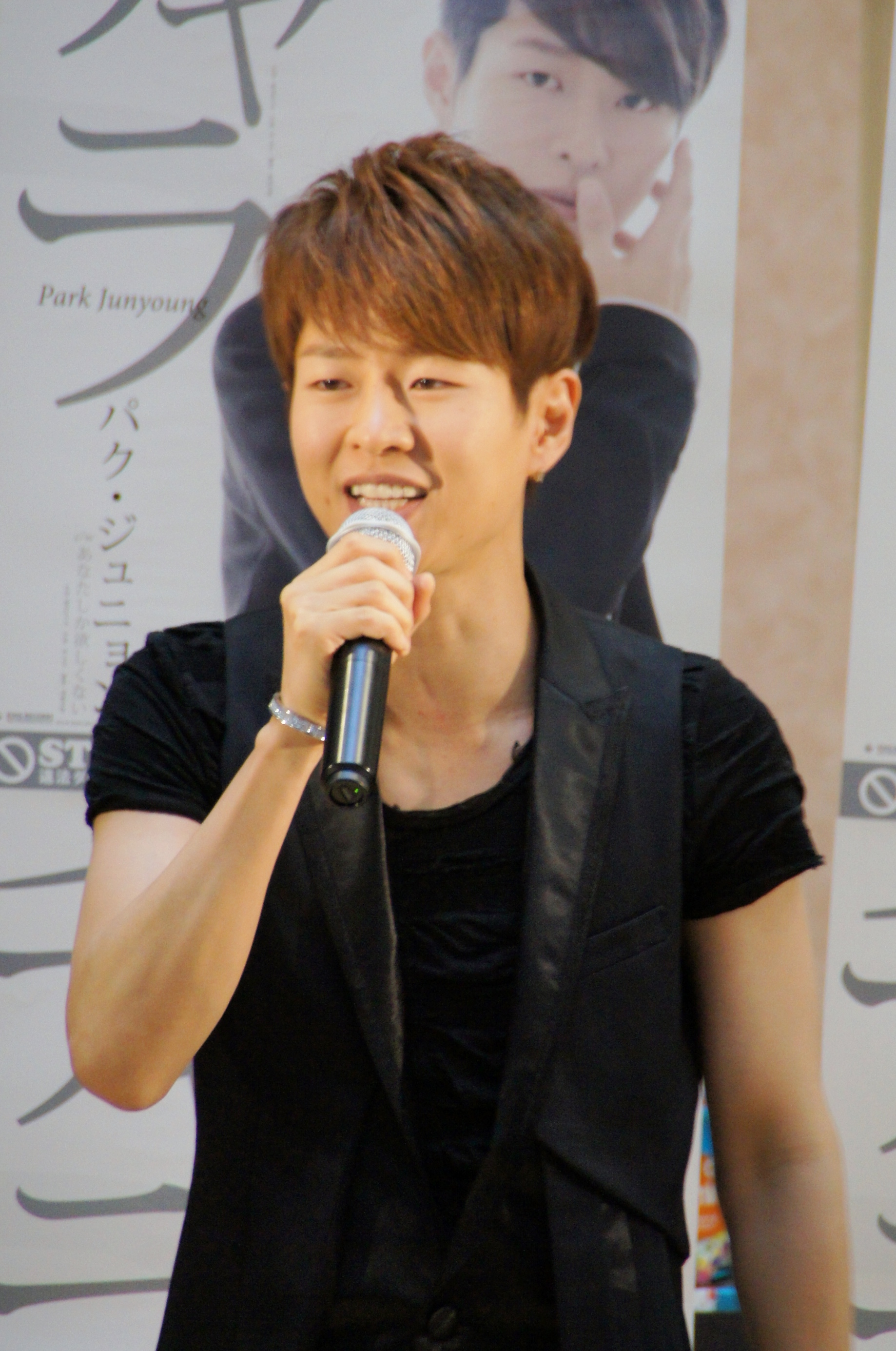 South Korean singer Park Junyoung performing at an event to promote his second single, "Chara", at the Peony Walk shopping mall in Higashimatsuyama, Saitama, Japan